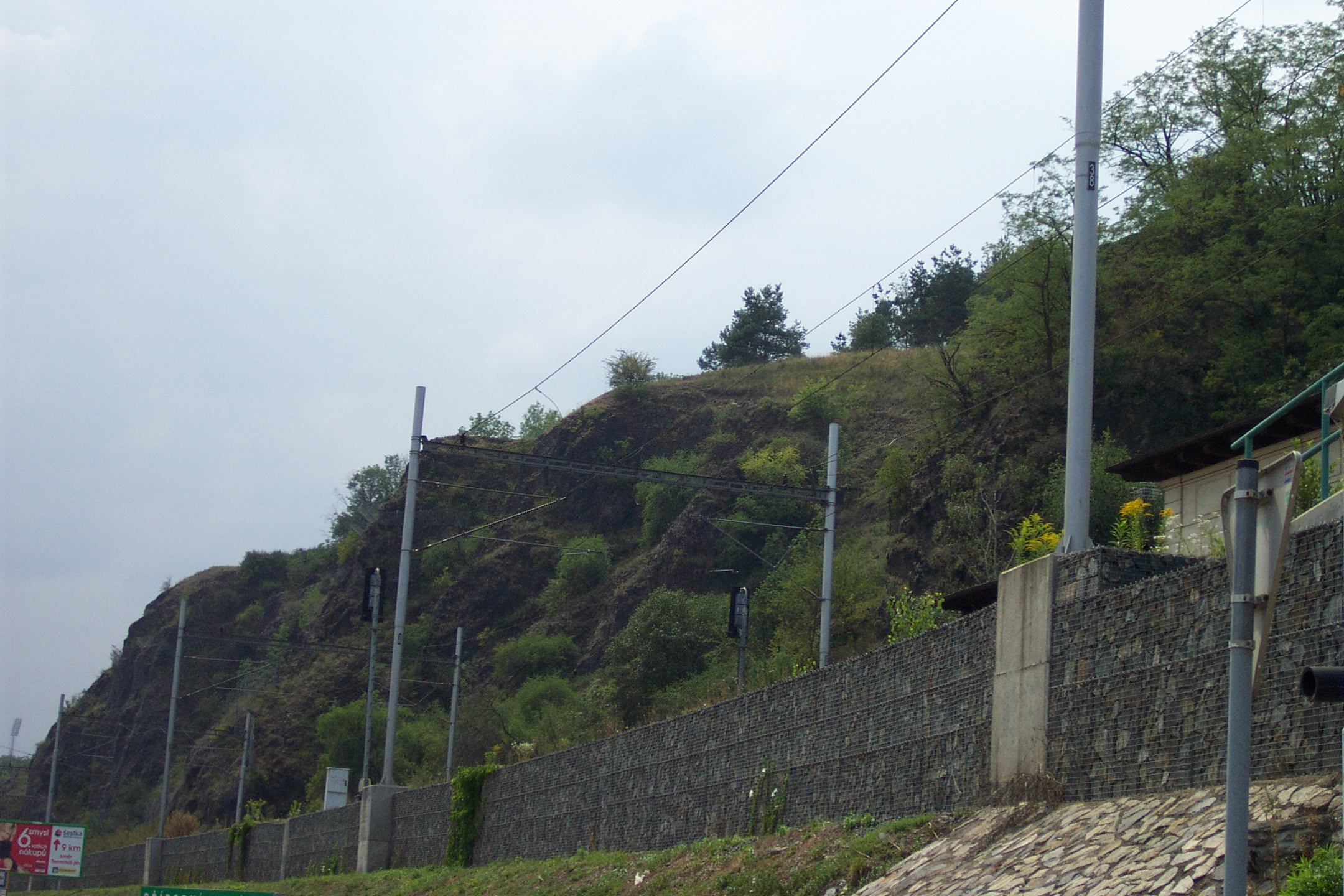 Rocks of Baba (Prague, CZ)help